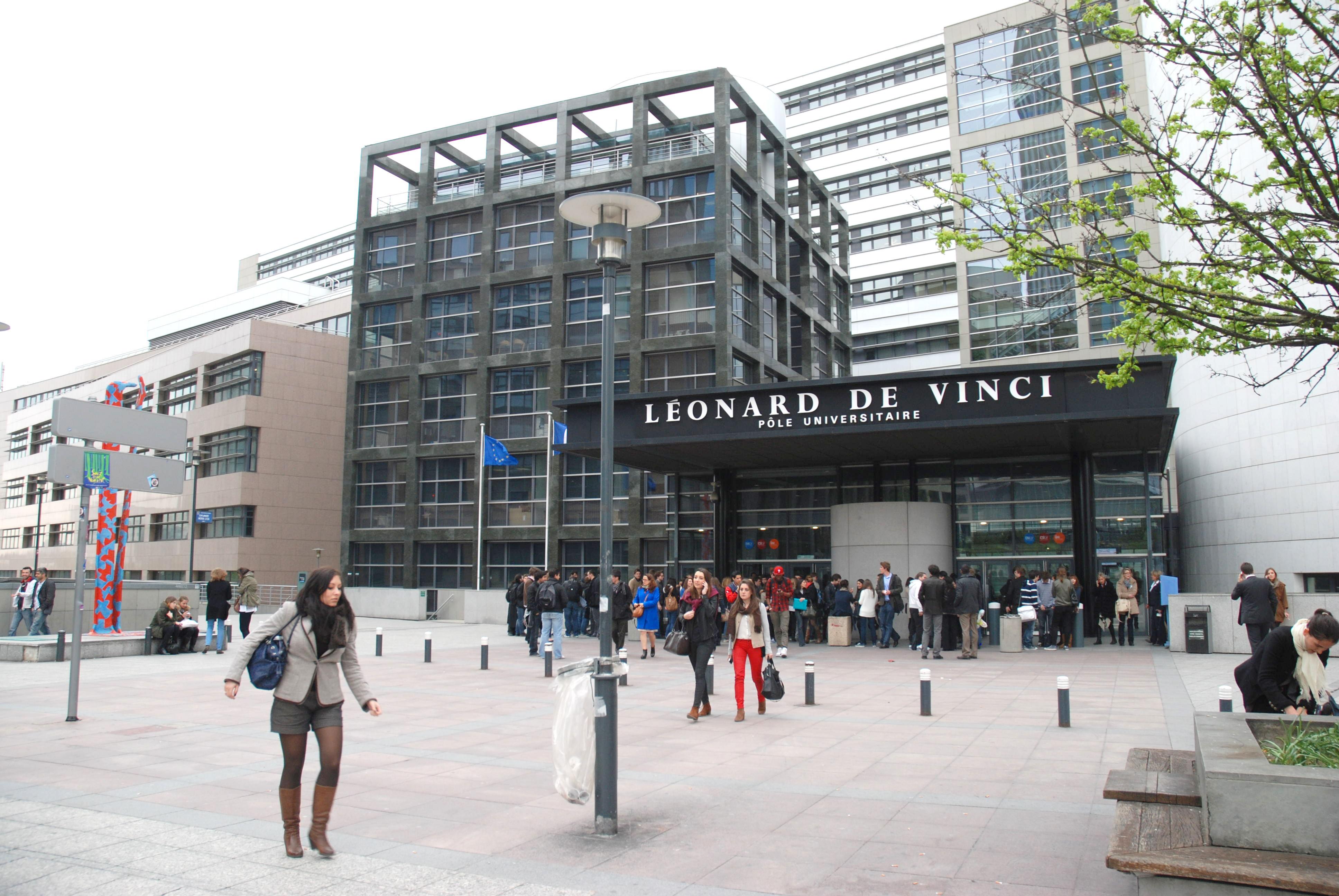 SKEMA Paris Campus